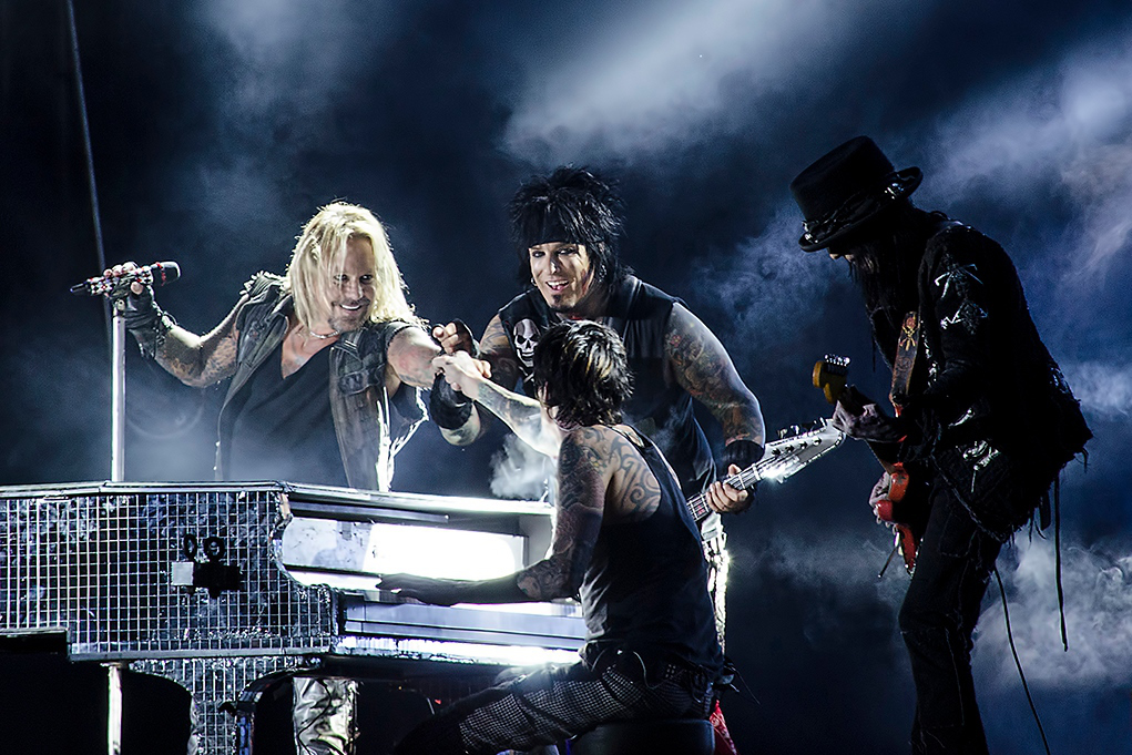 Mötley Crüe playing at Sweden rock festival 2012.